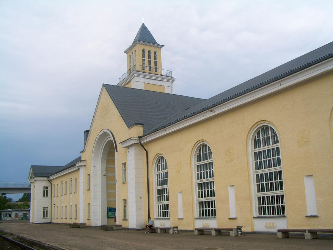 Valga train station, built in 1949.